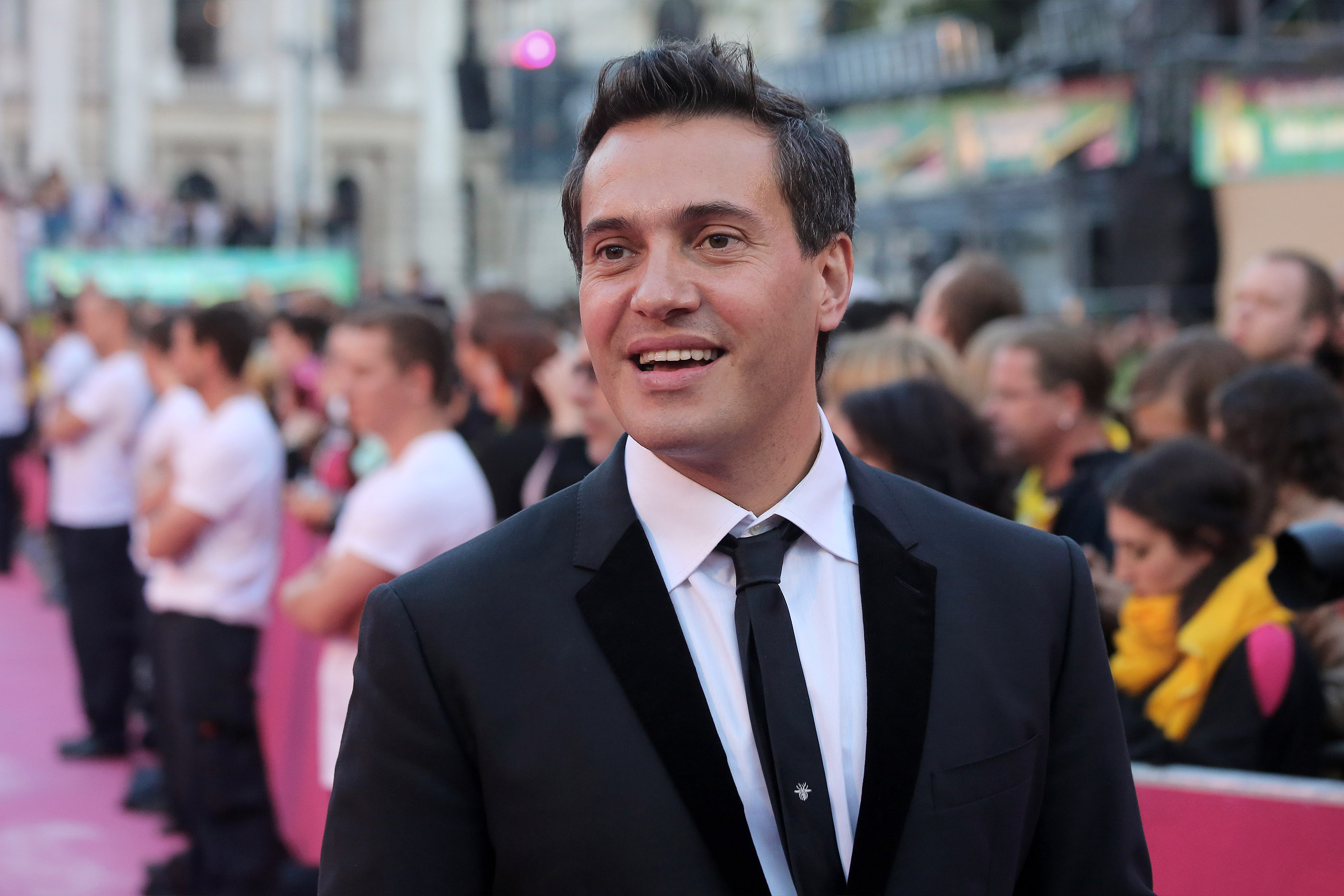 Erwin Schrott on the 'magenta carpet' at Life Ball 2013 at the square in front of the city hall of Vienna, Vienna, Austria.